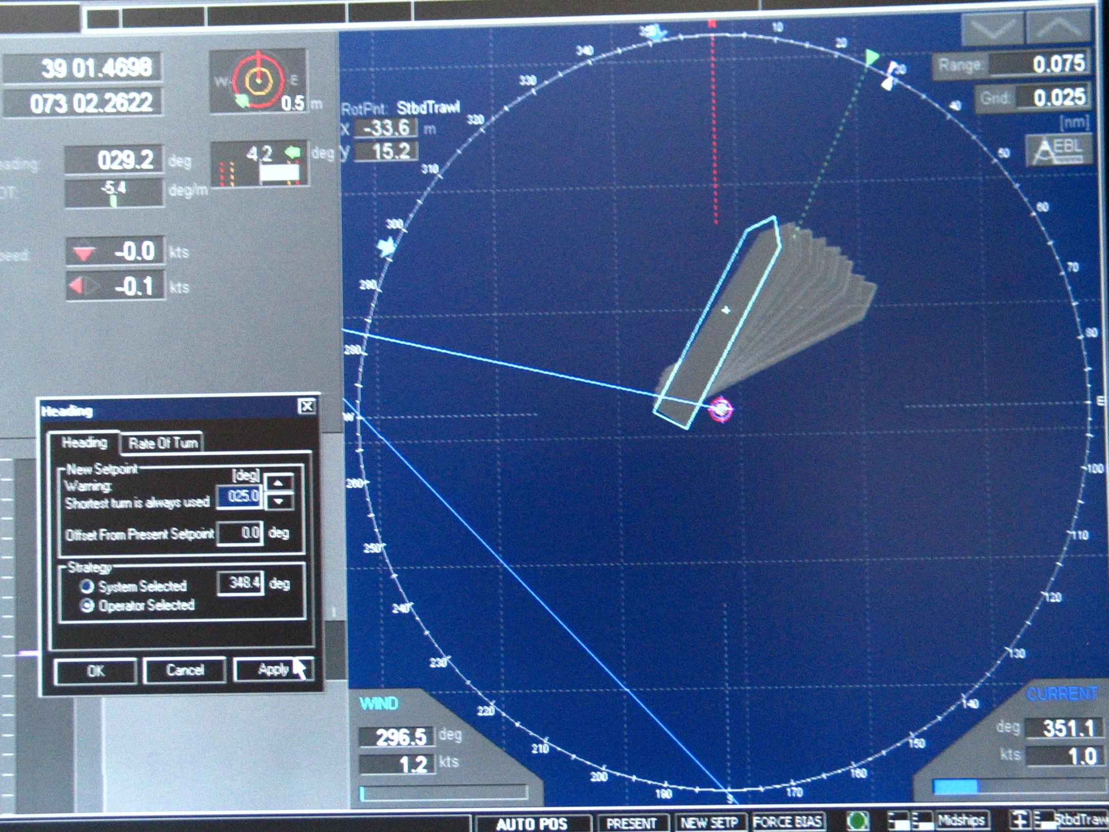 Screenshot of the dynamic positioning system on the R/V Knorr.